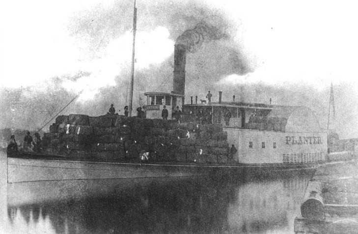 NH 74054 Steamer Planter -cropped. Loaded with 1000 bales of cotton, at Georgetown, South Carolina, probably in 1860-61 or 1866-76. This file is a work of a sailor or employee of the U.S. Navy, taken or made as part of that person's official duties. As a work of the U.S. federal government, the image is in the public domain. This file has been identified as being free of known restrictions under copyright law, including all related and neighboring rights. This work is in the public domain in its country of origin and other countries and areas where the copyright term is the author's life plus 100 years or less. You must also include a United States public domain tag to indicate why this work is in the public domain in the United States. This file has been identified as being free of known restrictions under copyright law, including all related and neighboring rights.